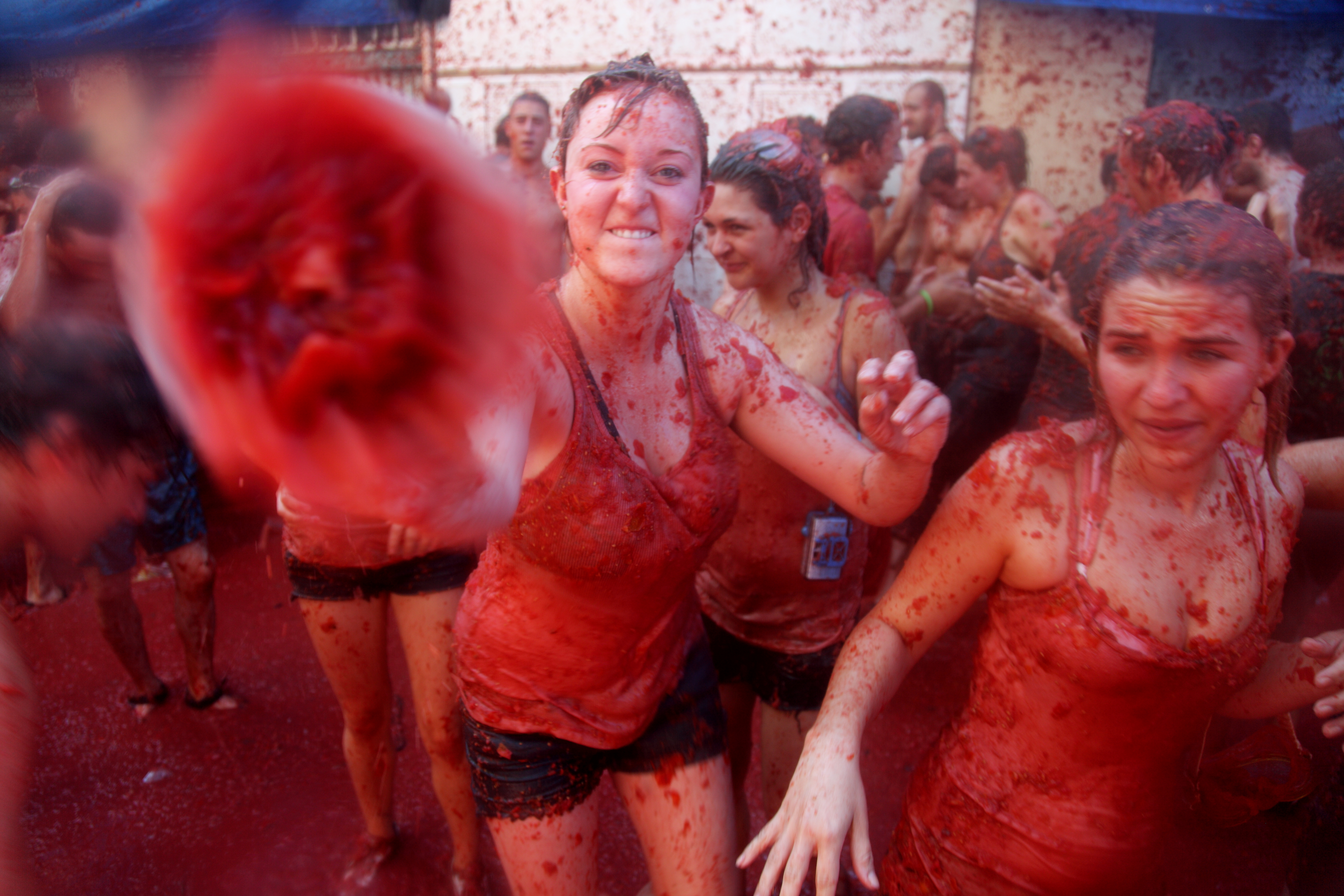 La Tomatina is a food fight festival held on the last Wednesday of August each year in the town of Buñol in the Valencia region of Spain. Tens of metric tons of over-ripe tomatoes are thrown in the streets in exactly one hour. Approximately 20,000–50,000 tourists come to find out more about the tomato fight, multiply by several times Buñol's normal population of slightly over 9,000. There is limited accommodation for people who come to La Tomatina, and thus many participants stay in Valencia and travel by bus or train to Buñol, about 38 km outside the city. In preparation for the dirty mess that will ensue, shopkeepers use huge plastic covers on their storefronts in order to protect them. They also use about 150,000 (kg) tomatoes, just about 90,000 pounds (